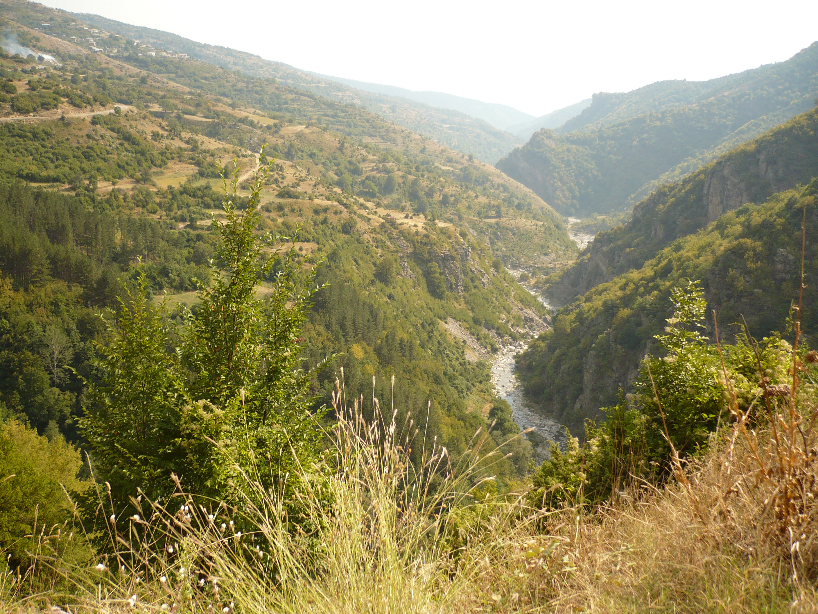 The valley of Kanina River under Kovachevitsa, Southern Bulgaria.